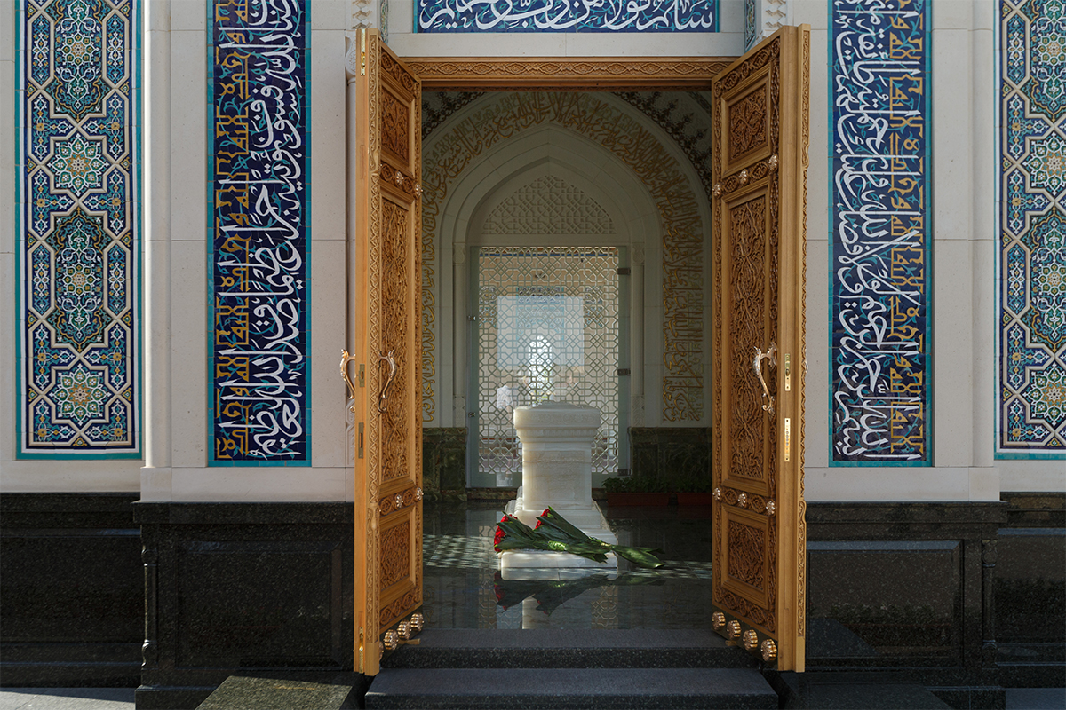 Visit of the Minister of Defense of the Russian Federation in Uzbekistan.